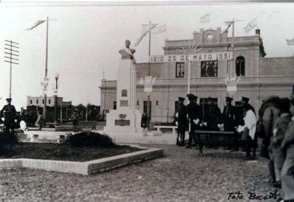 Comodoro Rivadavia railway station decorated for the celebration of the May Revolution.